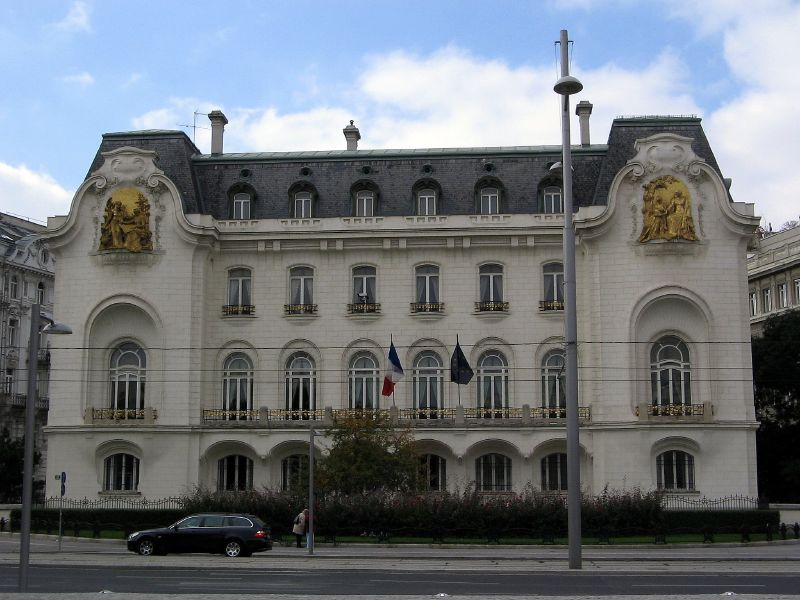 Embassy of France in Vienna.